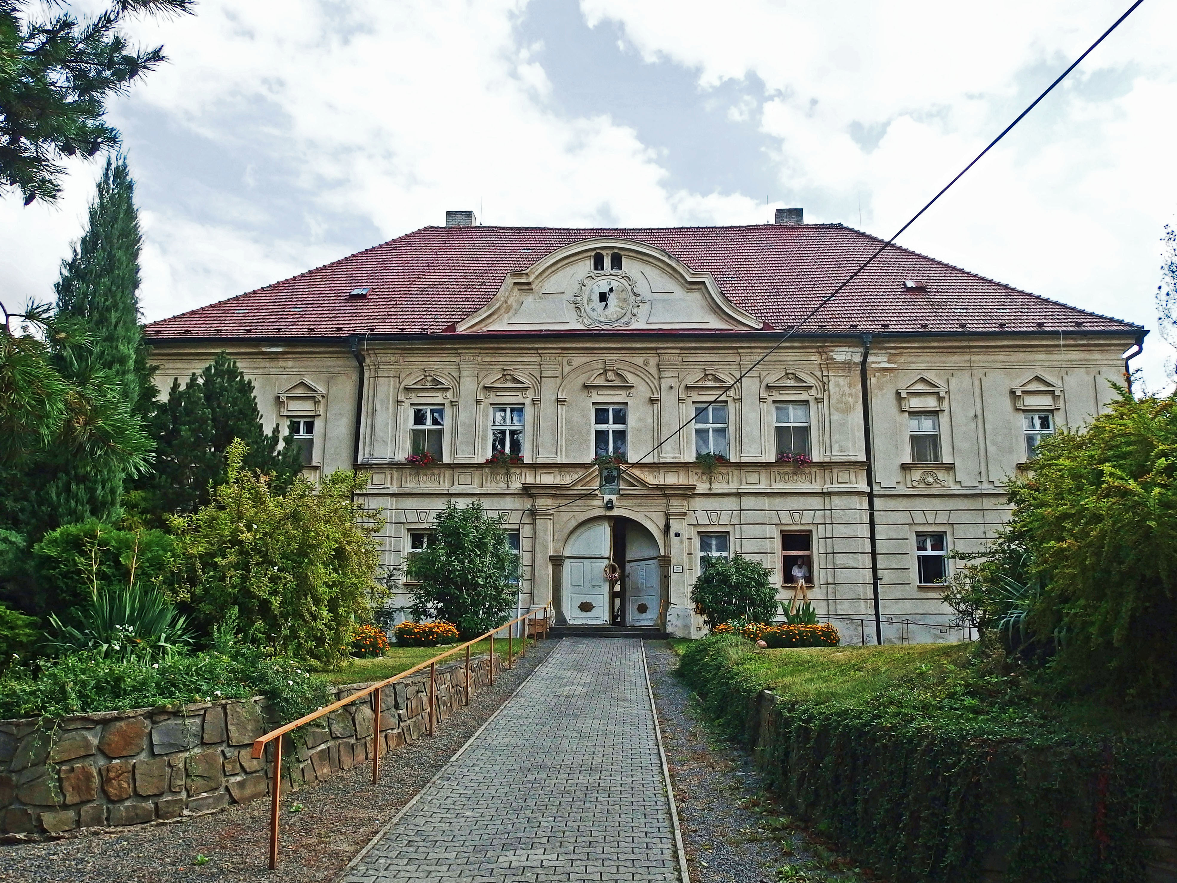 Choryně, Vsetín District, Czech Republic.